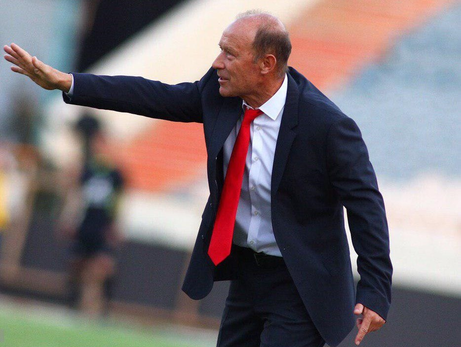 Persepolis V Pars Jam FC, 22 August 2019. Azadi Stadium.